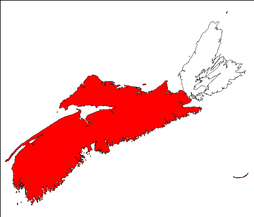 A map of Nova Scotia highlighting a peininsula.